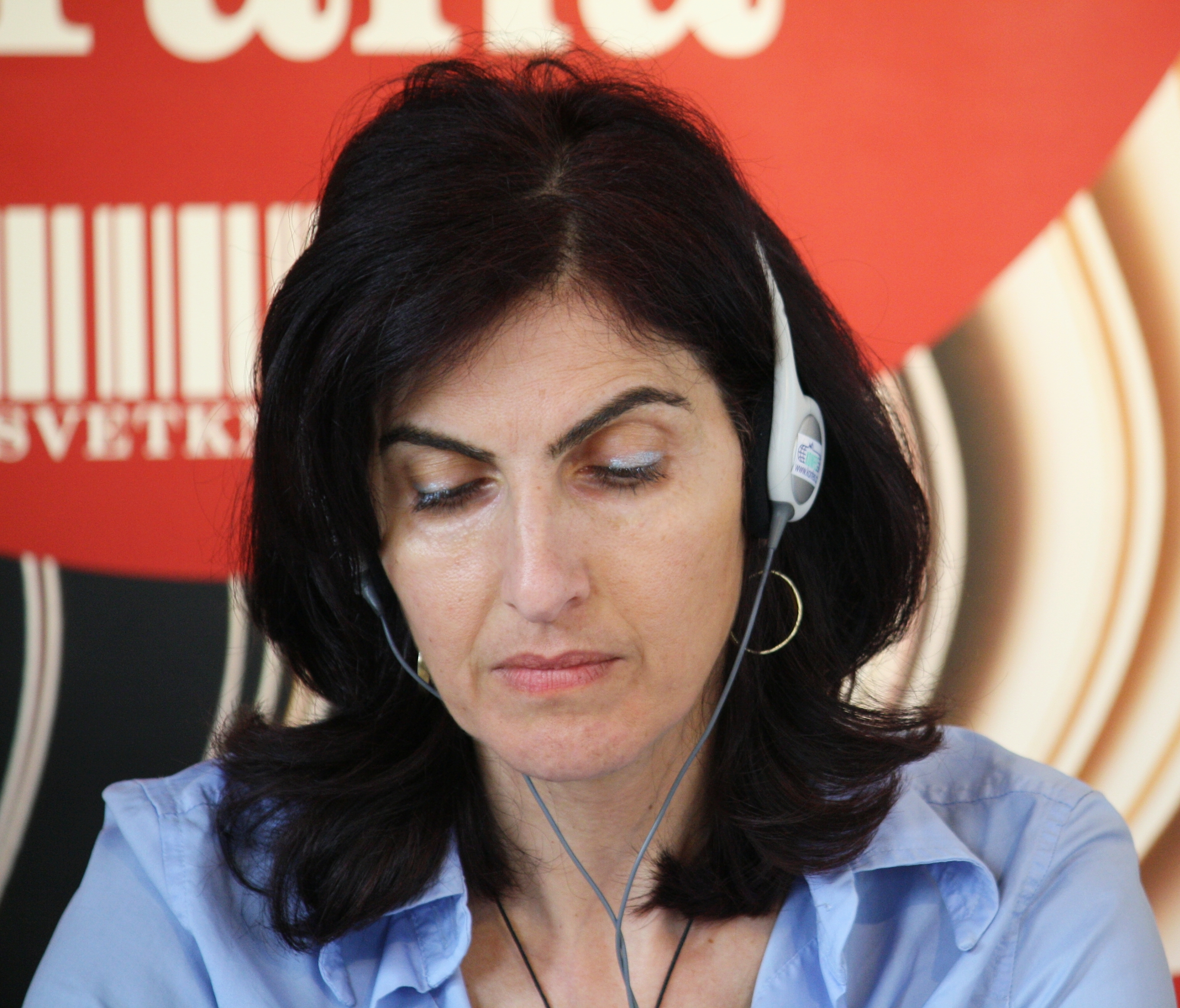 Fatima Sharafeddine on 17th International Book Fair and Literary Festival Book World Prague Personality rights warning Although this work is freely licensed or in the public domain, the person(s) shown may have rights that legally restrict certain re-uses unless those depicted consent to such uses. In these cases, a model release or other evidence of consent could protect you from infringement claims.